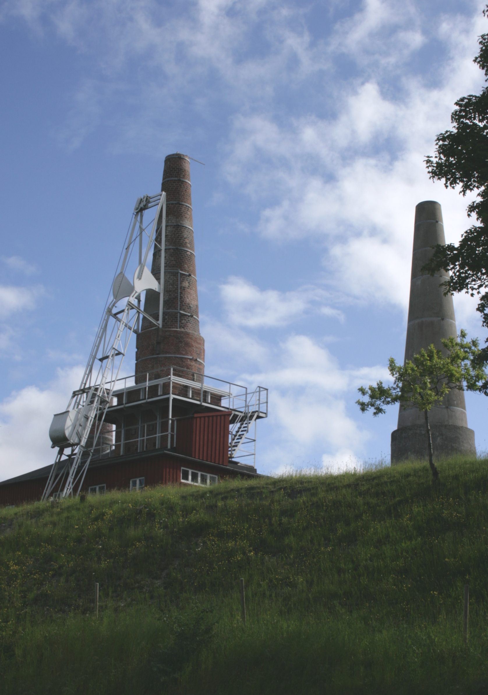 The Lime kilns at the limestone quarries, Mønsted, Denmark